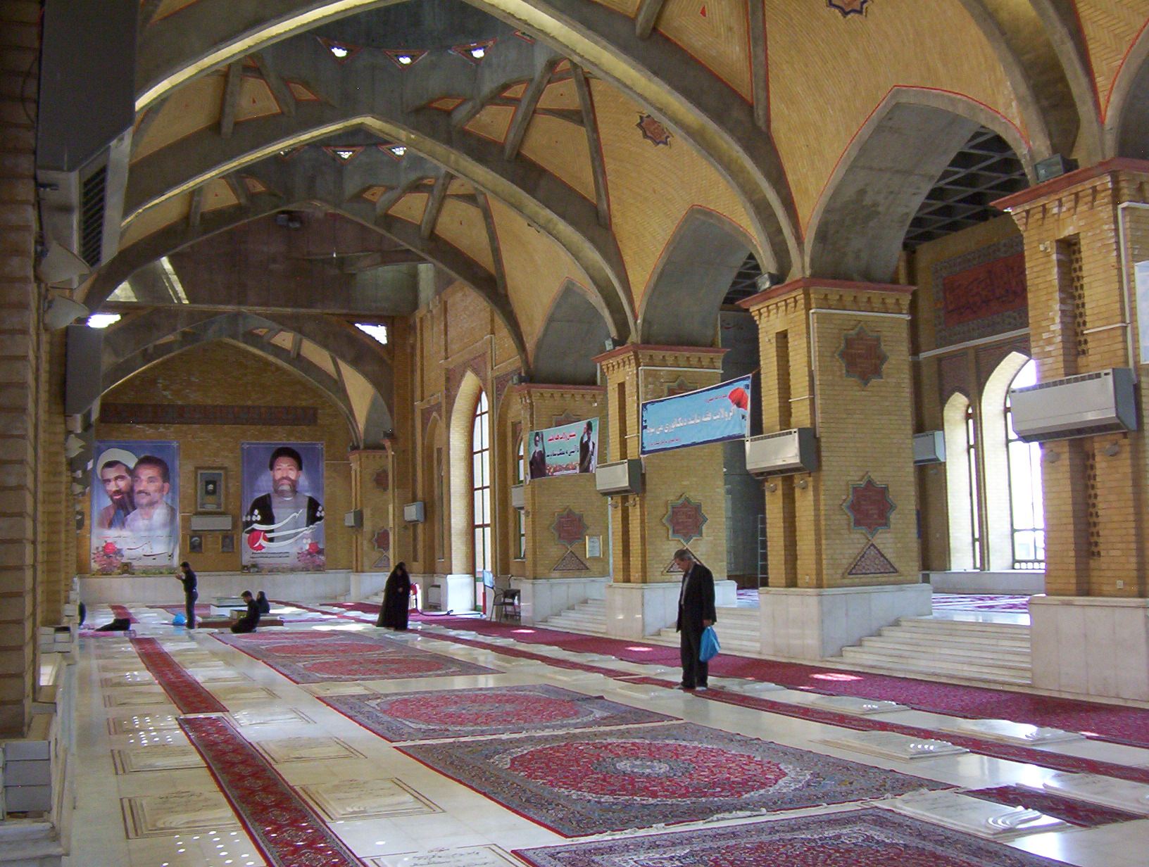 Hafte Tir bombing tombs and monument in Iran.